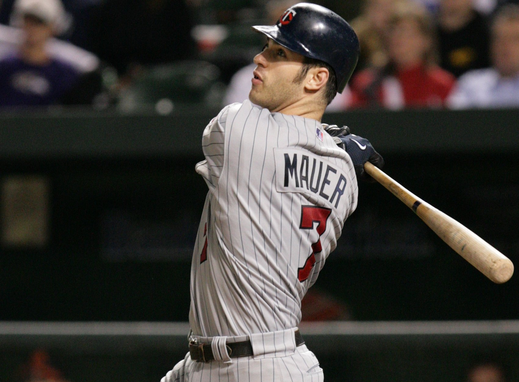 Minnesota Twins catcher Joe Mauer swings the bat during a game on September 22, 2006.